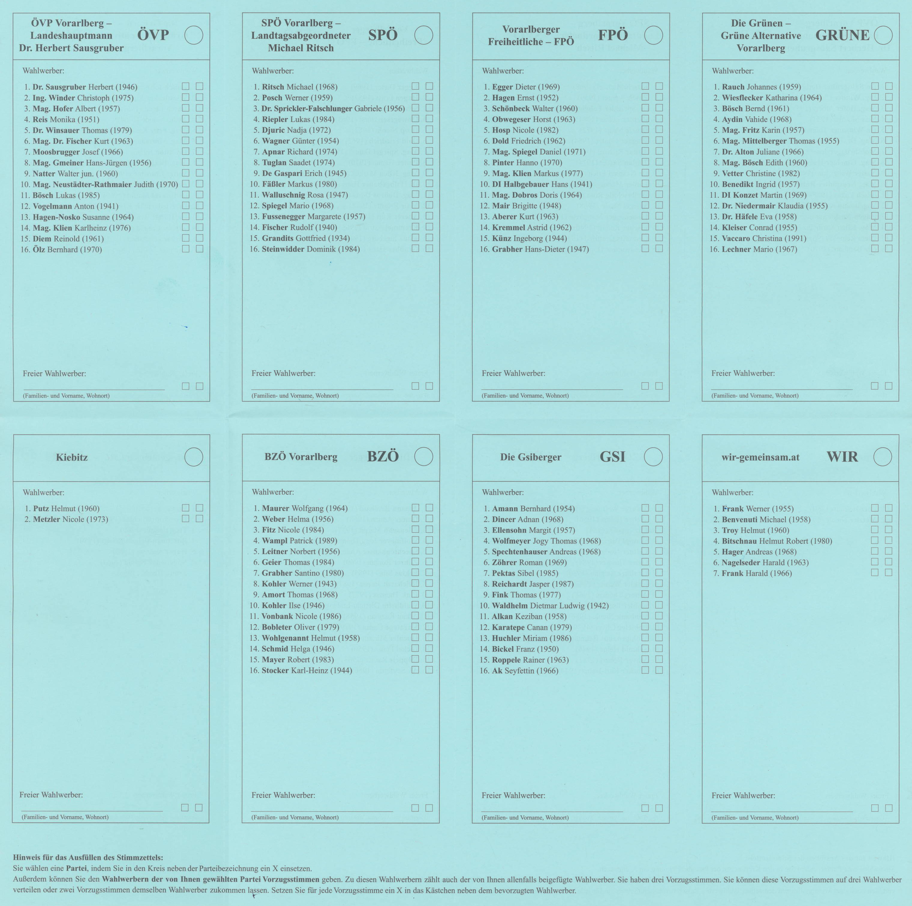 Ballot paper for the 2009 Vorarlberg state election. The ballot paper shown here was for voters in the electoral district of Dornbirn.